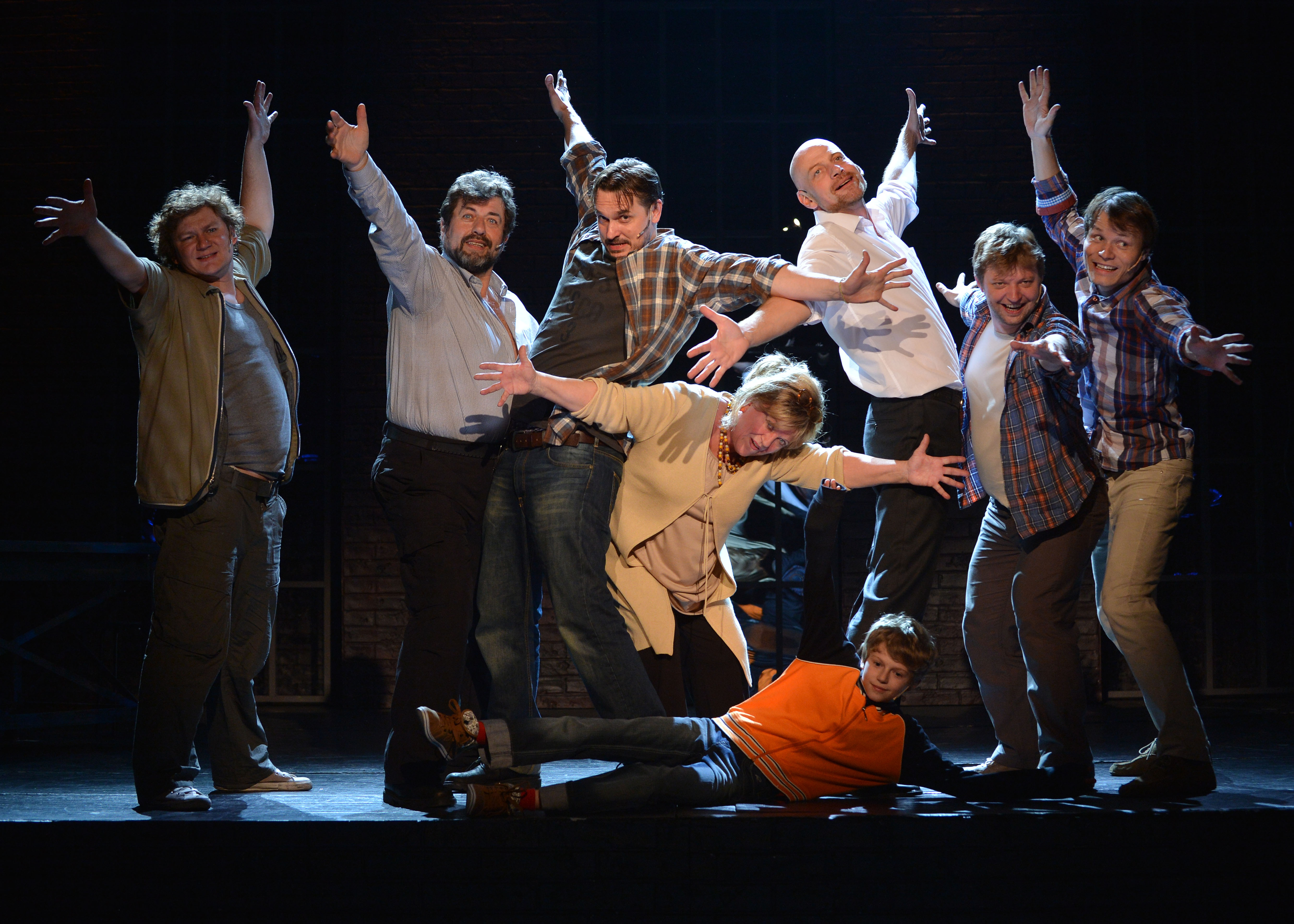 The musical The Full Monty, version Městské divadlo Brno